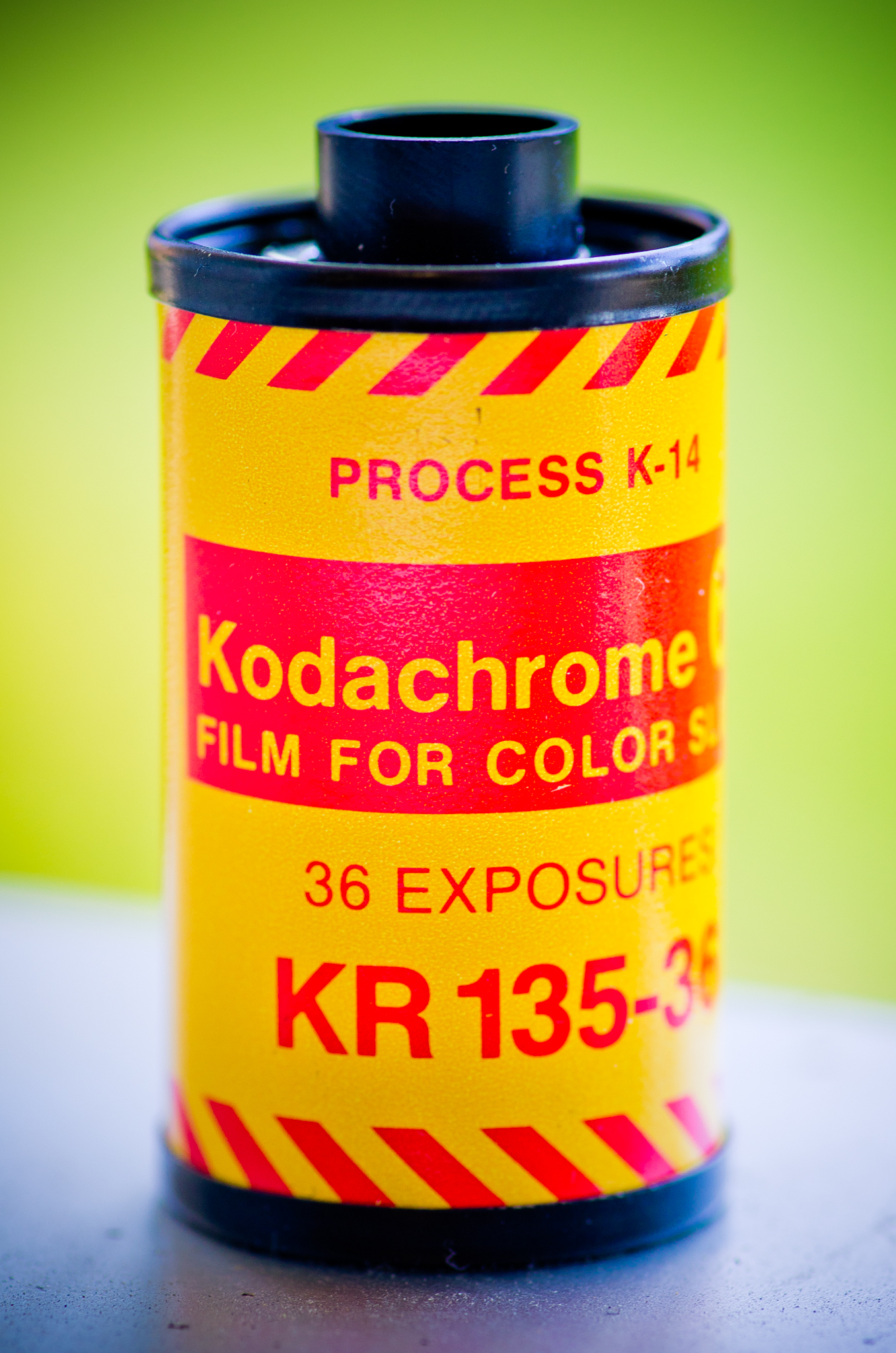 Some people brought this in today, photos taken by a late relative. Sadly, they will not be seen. edit: at least not in colour! Apparently it can be developed as black and white. :)